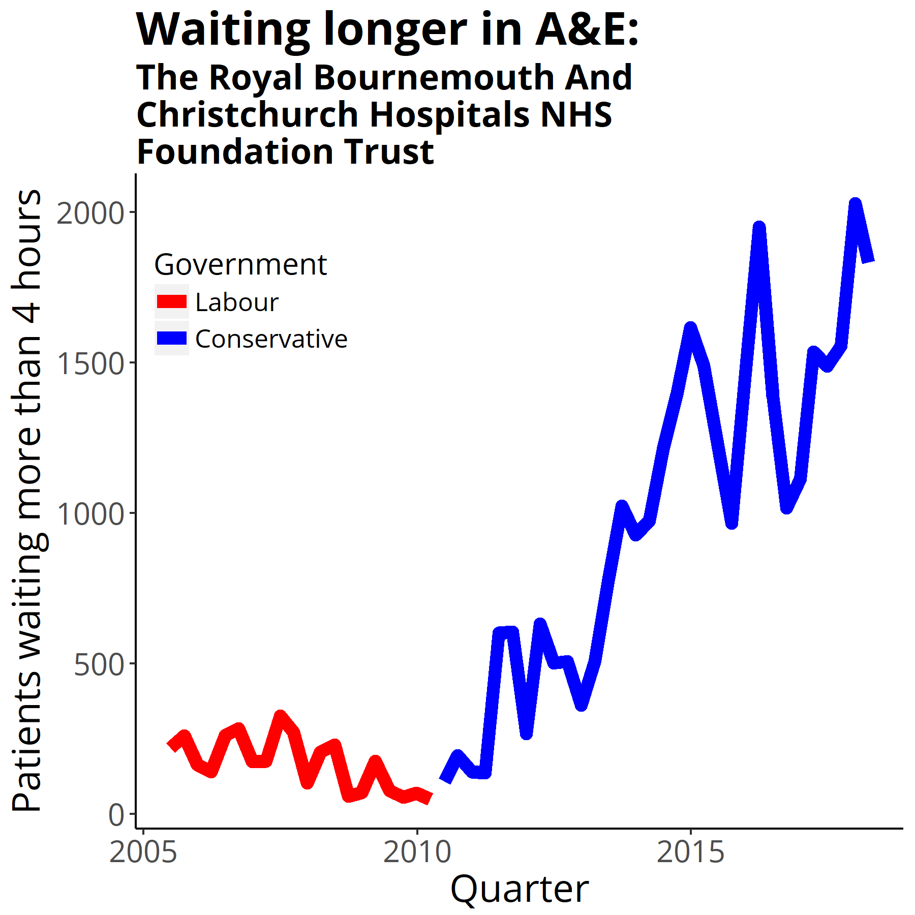 en|1=Four-hour target in the emergency department quarterly figures from NHS England[1]